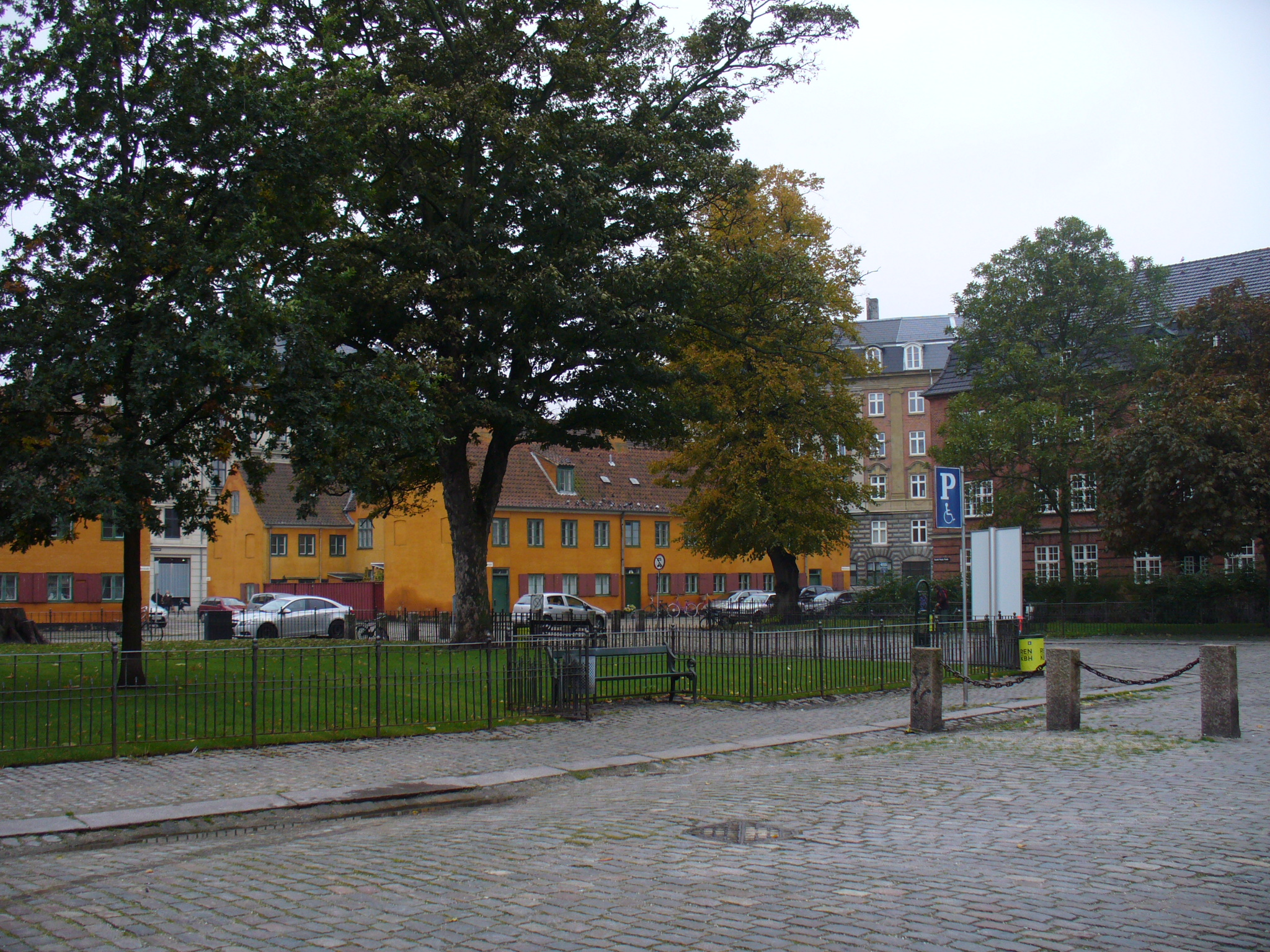 The square Sant Pauls Plads in Indre By in Copenhagen.